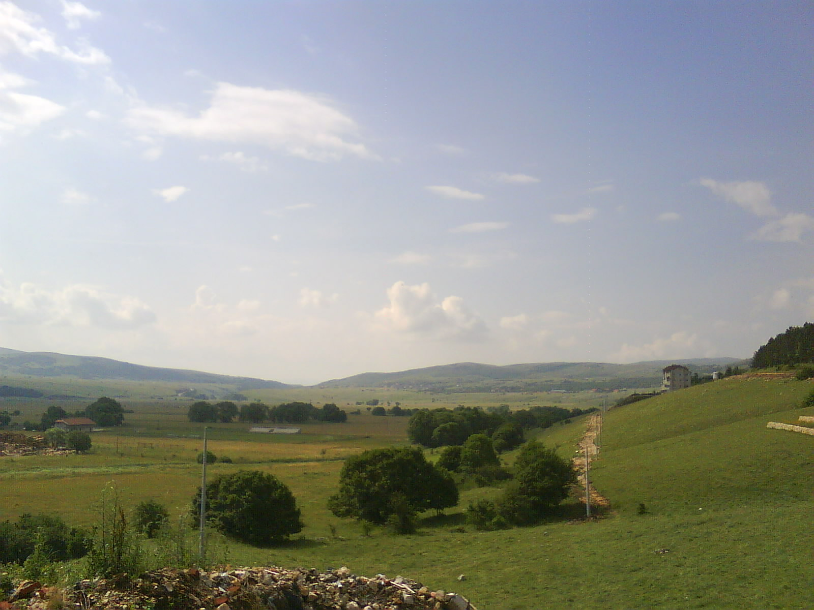 Šujica village, municipality of Tomislavgrad